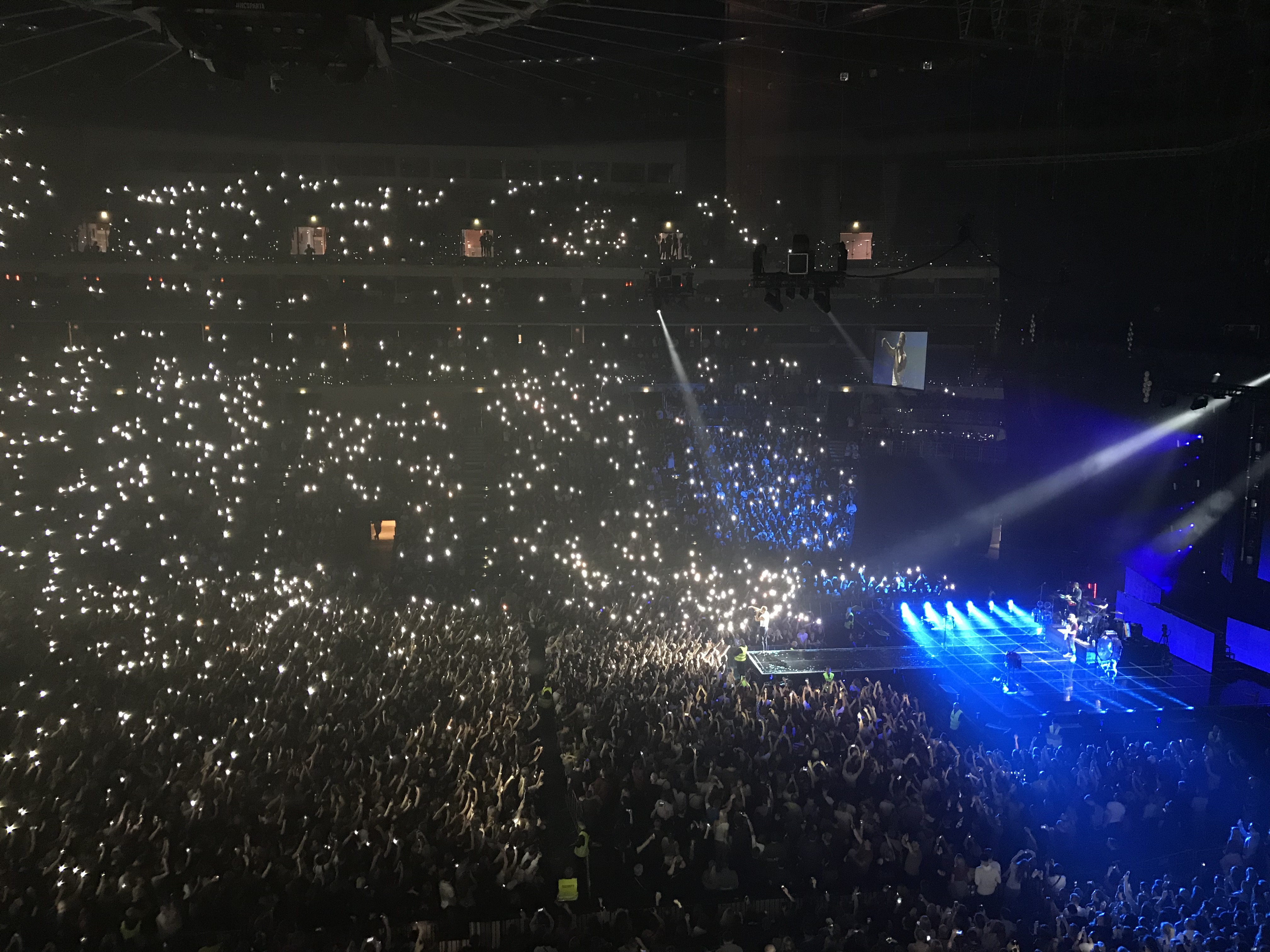 Imagine Dragons in Prague (Czech Republic / Czechia) 2018 (O2 Arena) with album Evolve